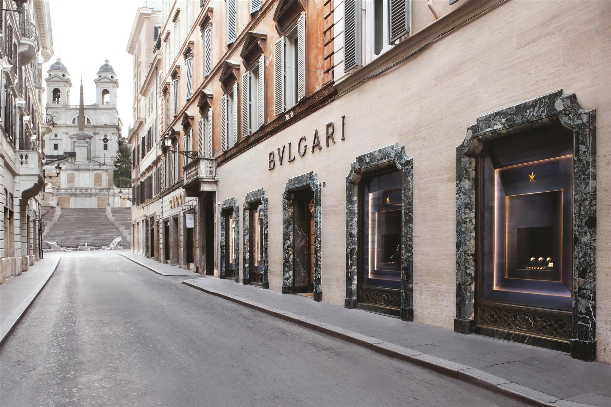 Bvlgari Via Condotti flagship